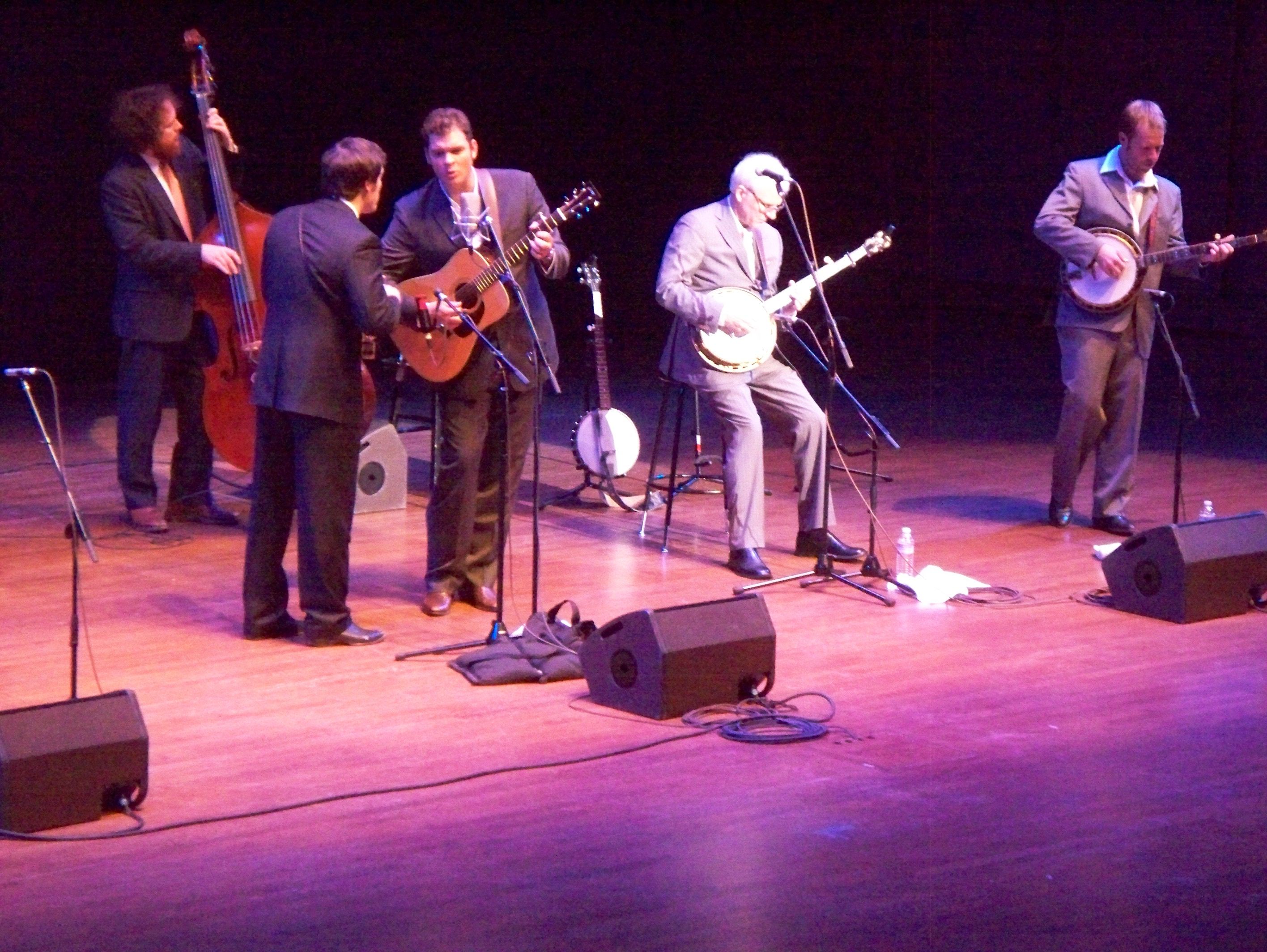 Concert picture of Steve Martin and The Steep Canyon Rangers in Seattle on November 3, 2009.